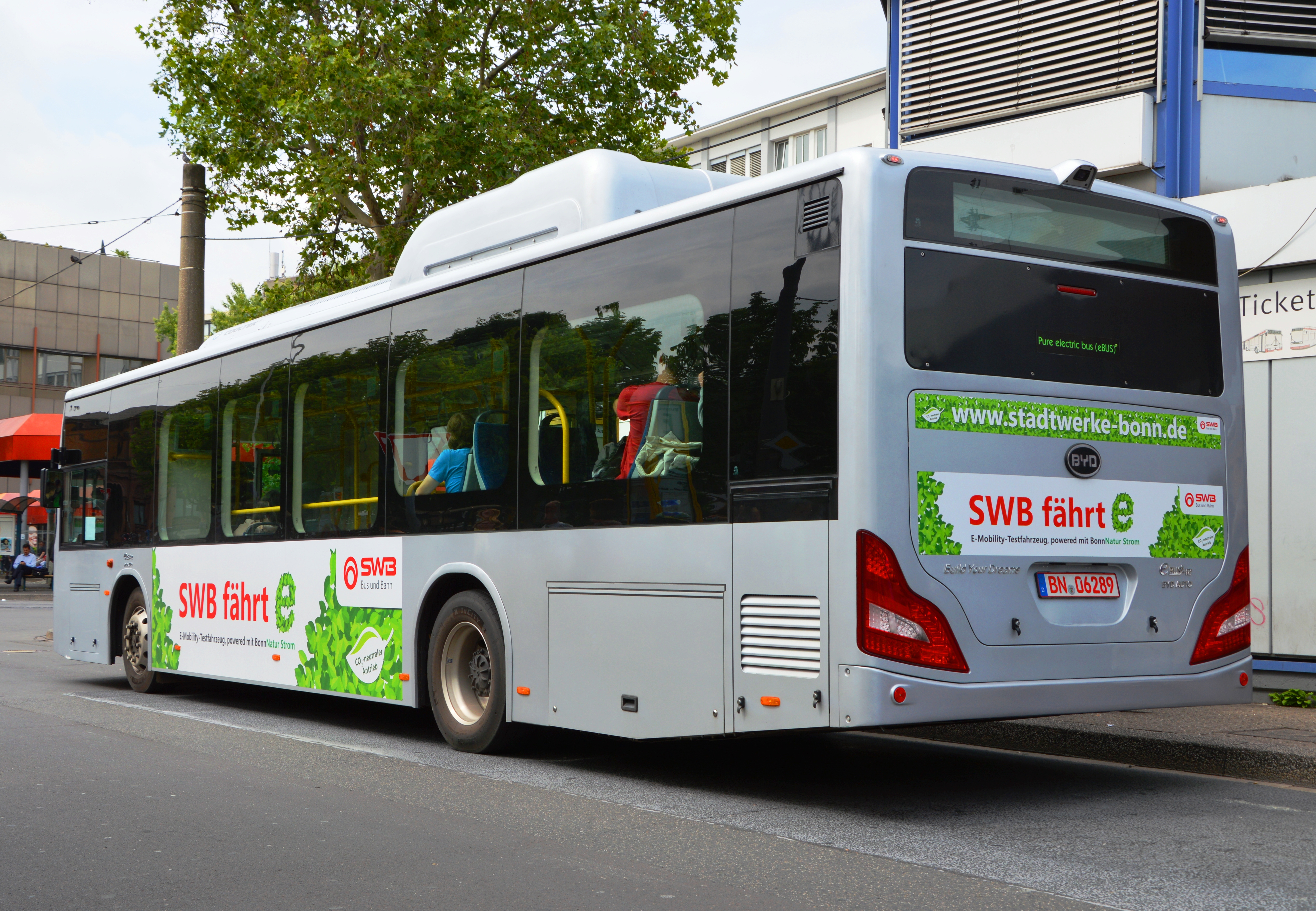 BYD ebus (electric bus). Test vehicle. Photo taken 2013 in Bonn, Germany. 中文（中国大陆）: 比亚迪K9. 在2013年在波恩举行的夏季测试车